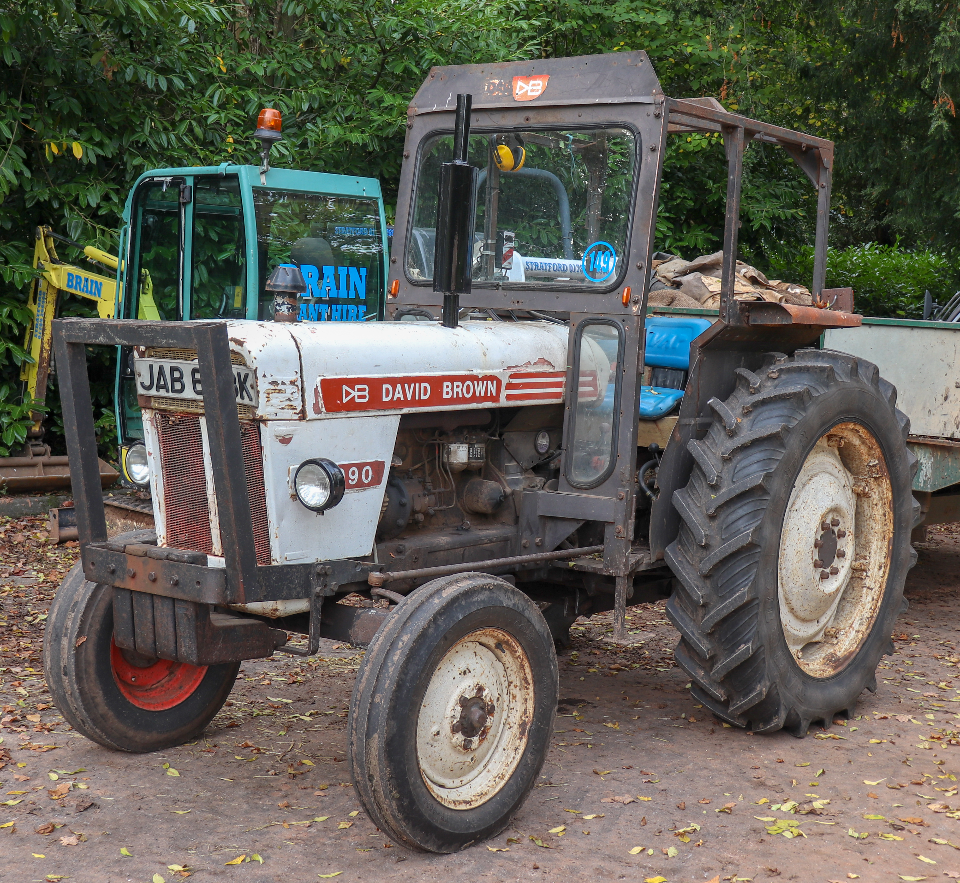 1971 David Brown 990 Taken in Warwick